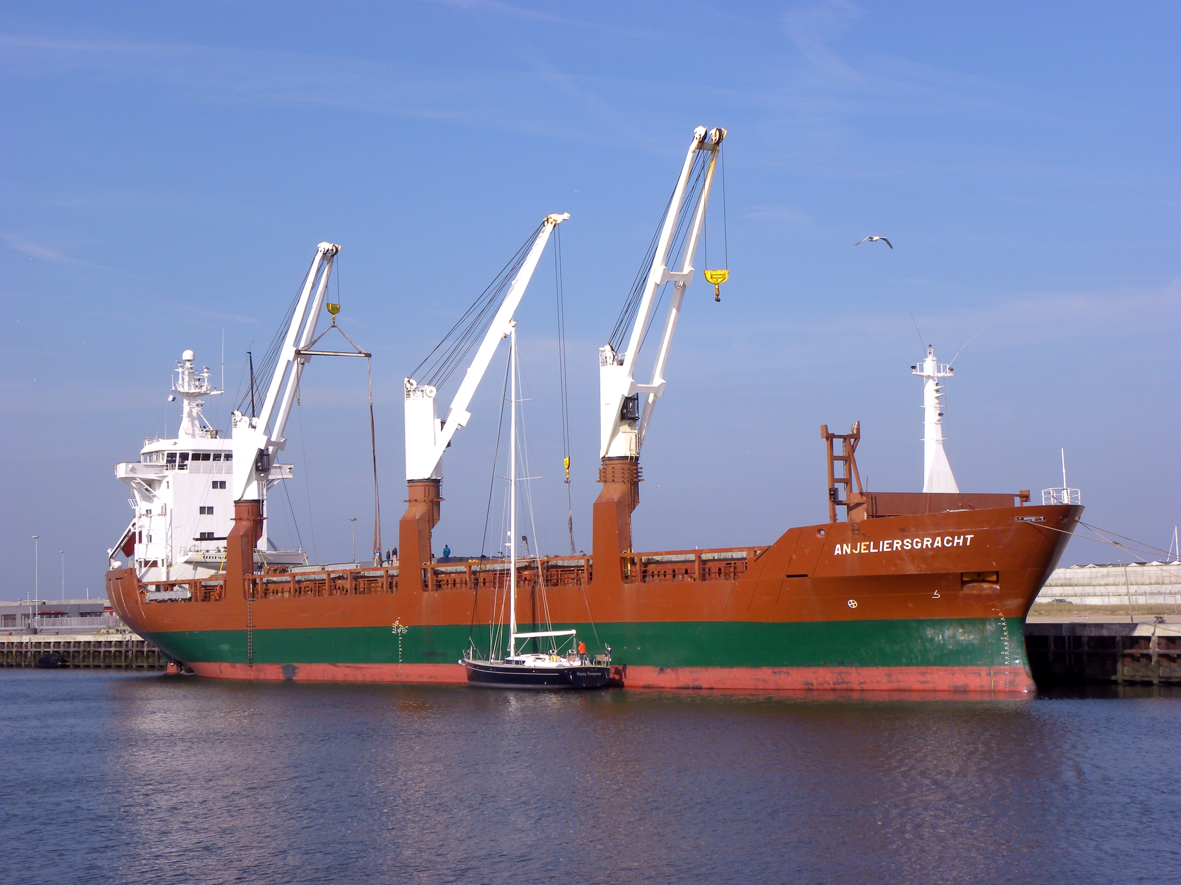 build in 1990 at Van der Giessen , De Noord B.V. Krimpen a/d IJssel. the netherlands. it was about to take this sailing boat on board , but it took ages and I could not wait that long.